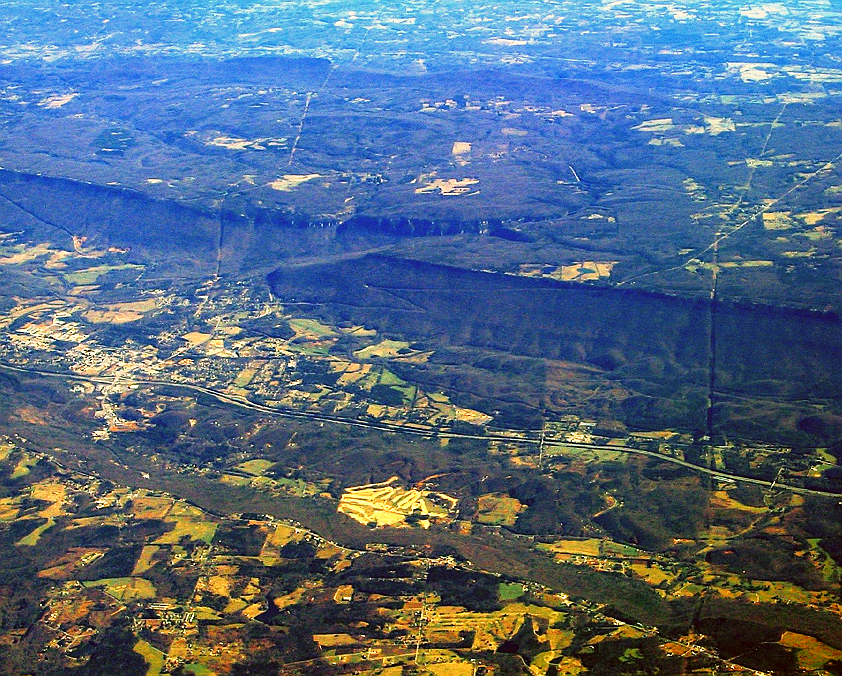 Escarpment face of a cuesta, broken by a fault. Lookout Mountain, Georgia/USA Source: [Image:Cuesta0220.jpg] (now at Image:Escarpment on the Cumberland Plateau, Tennessee.jpeg) Image Processing, blue/red/shp. --Geof 01:45, 19 March 2006 (UTC)